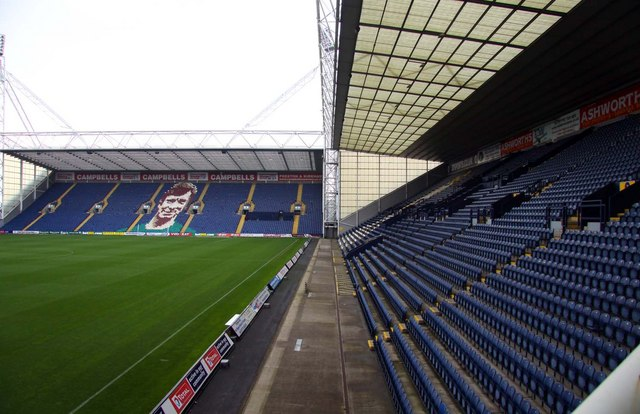 Deepdale - Home of Preston North End